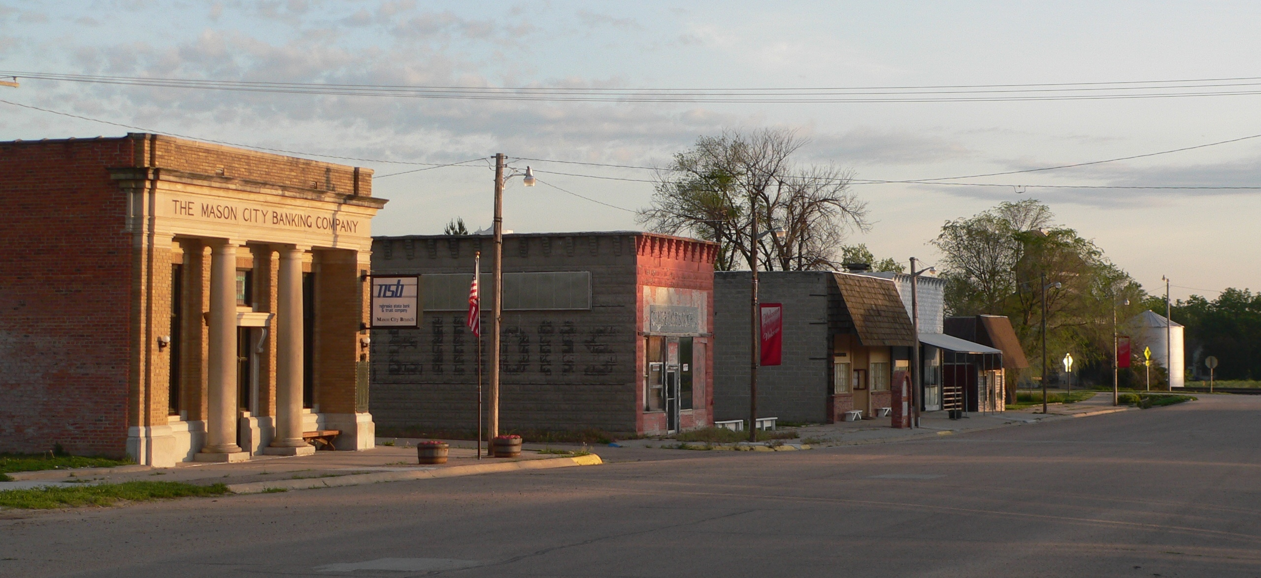 Downtown Mason City, Nebraska.